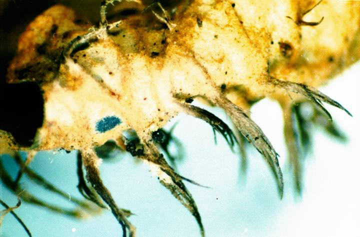 Peltigera praetextata (Flörke ex Sommerf.) Vain., 1899 (photograph of a herbarium specimen taken through a dissecting microscope (x23) showing the lower surface and rhizines) Growing in moss in a moist deciduous woods along Lamkin Drive, 0.3 mile N of Middle Village Church, Emmet County, Michigan, USA; collected and identified by Richard E. Riefner (No. 81-652, 7 Aug 1981) specimen is now in the Lichen Herbarium of the New York Botanical Garden.